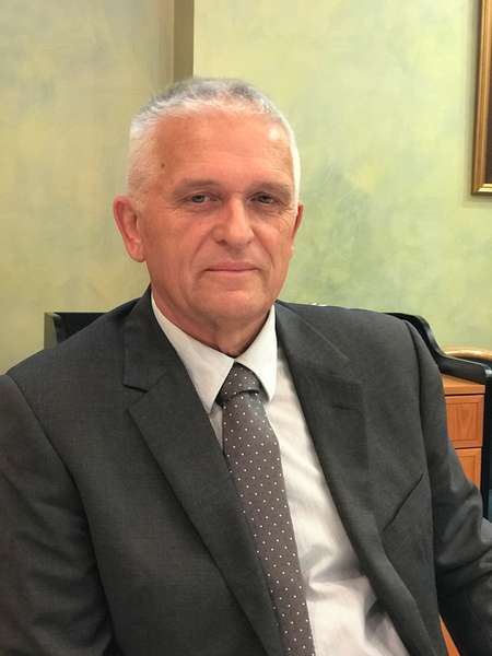 This is a photograph of Zoran Bojanić, a politician in Serbia. He has served in the National Assembly of Serbia since 2012 as a member of the Serbian Progressive Party.